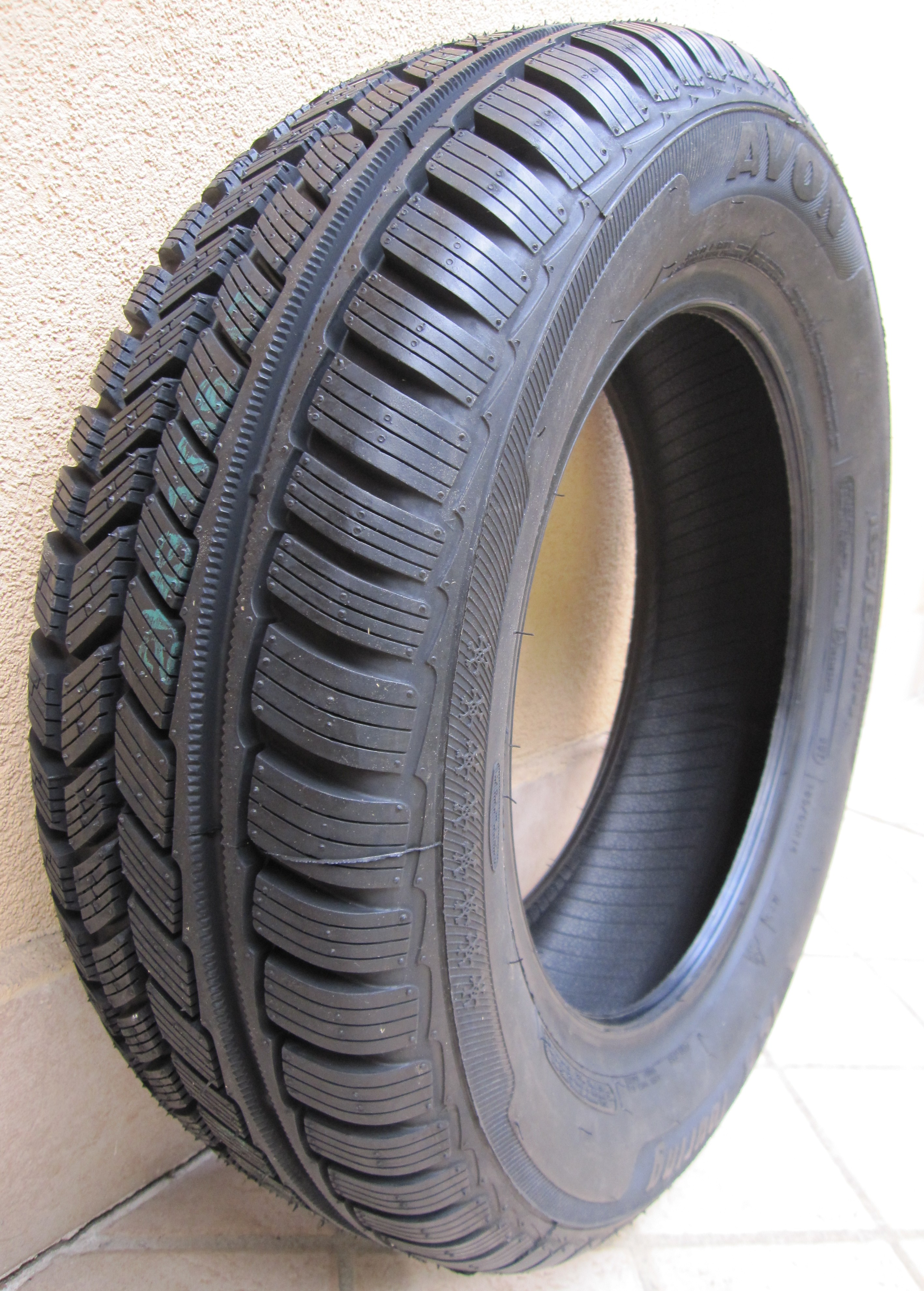 Avon Ice Touring winter tire. Mud+Snow and "snowflake" (severe snow conditions) marked. Size:185/65 R14 86T.